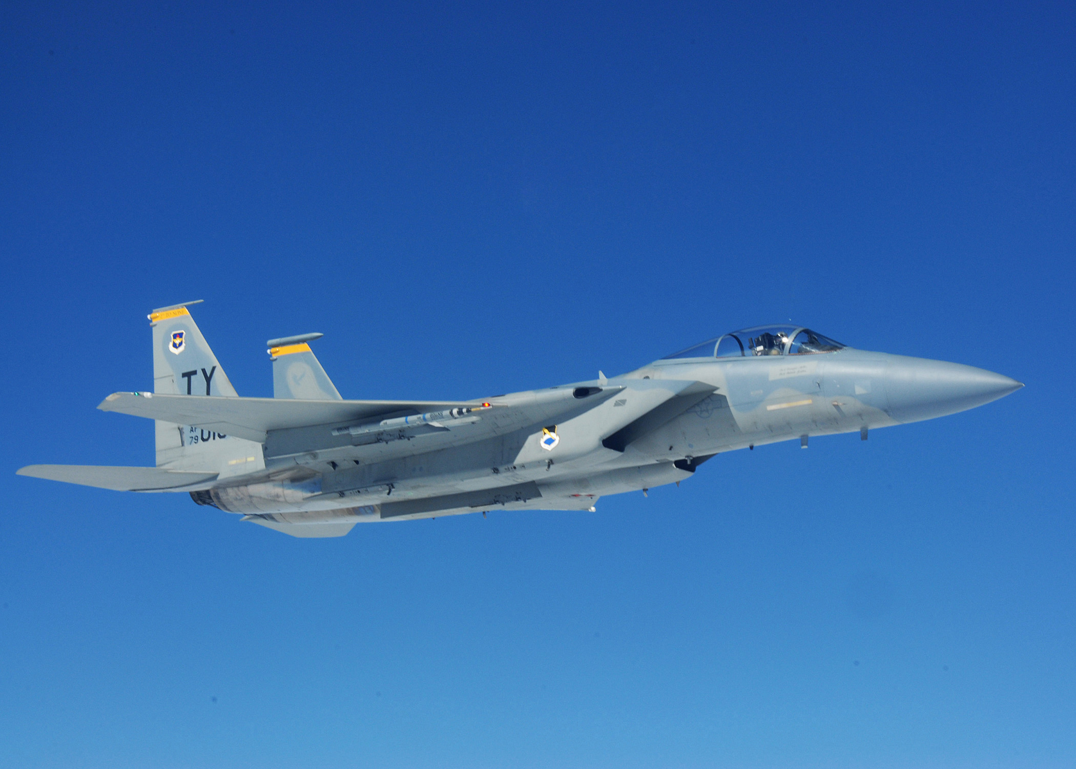 A U.S. Air Force F-15 Eagle aircraft flies over Panama City, Fla.